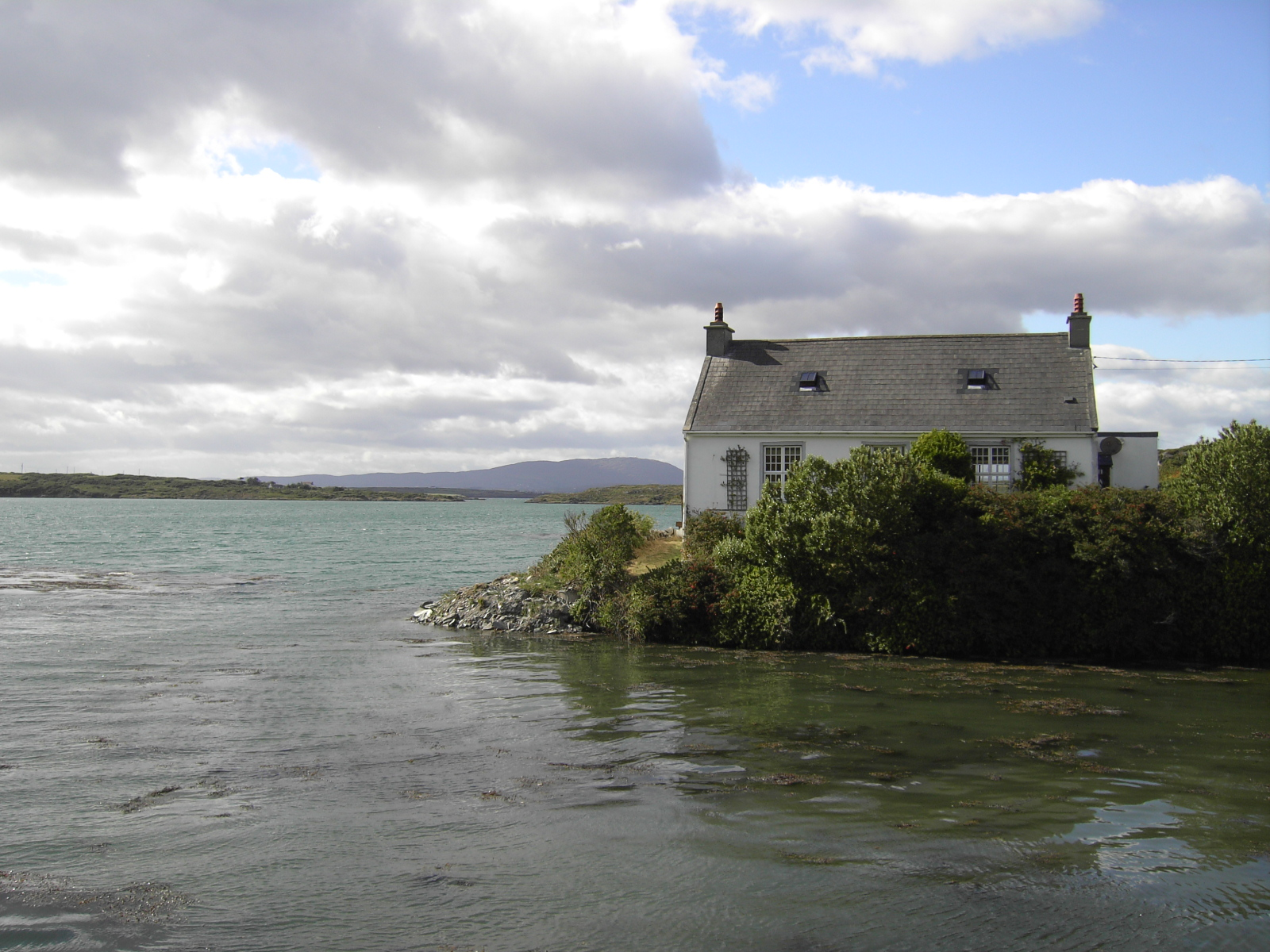 The old School house